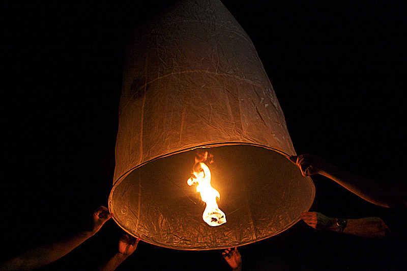 Release of giant sky lanterns during Loi Kratong festival in Phuket, Thailand